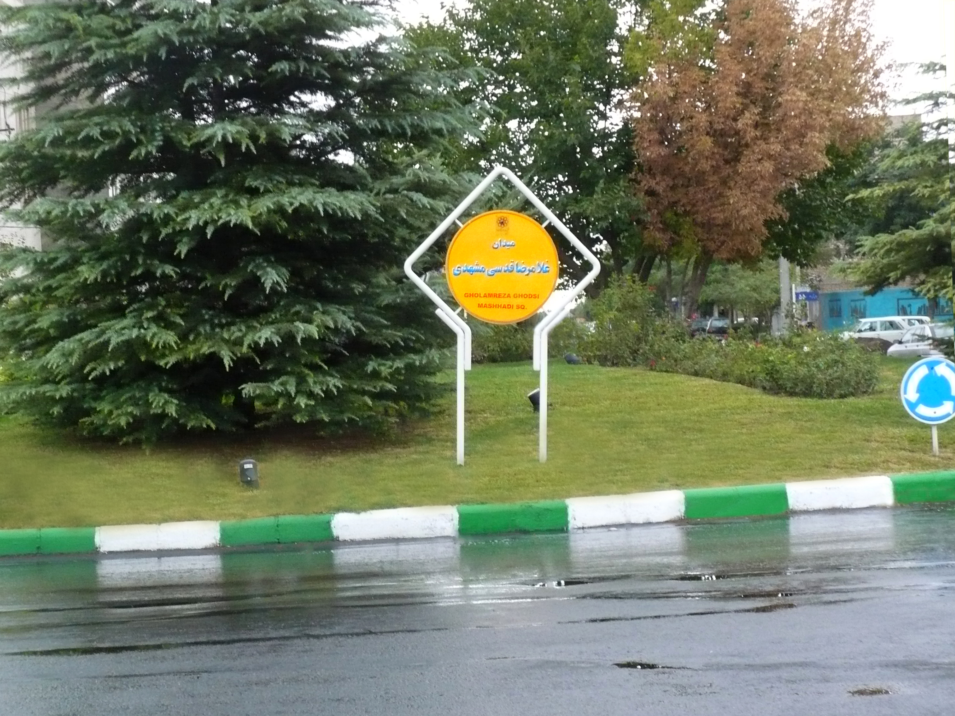 Gholamreza Ghodsi Square, Jalal-e Al-e Ahmad Blvd., Municipality of dist. 11, Mashhad